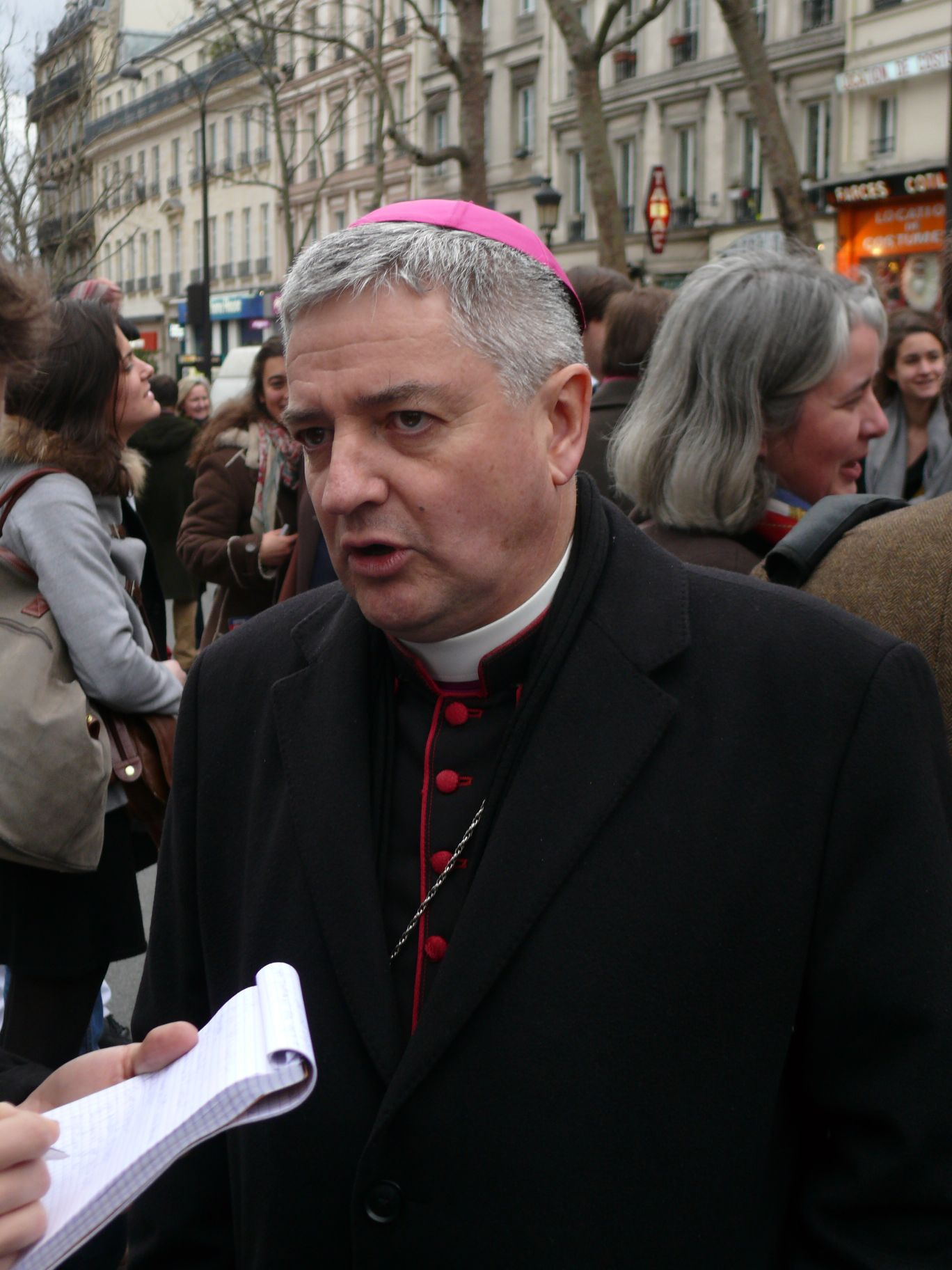 March for Life 2012 in Paris (France).